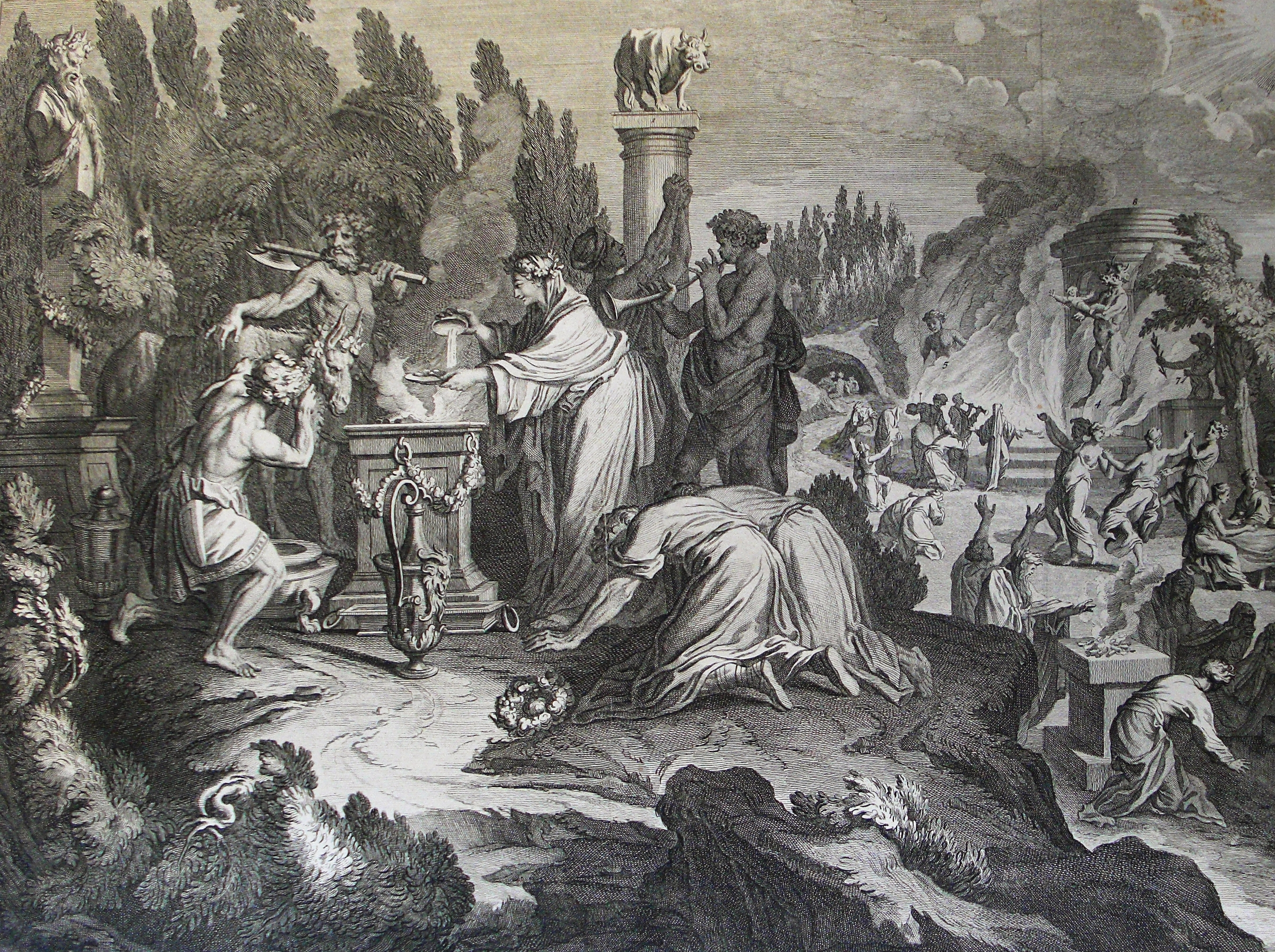 A print from the Phillip Medhurst Collection of Bible illustrations in the possession of Revd. Philip De Vere at St. George’s Court, Kidderminster, England.